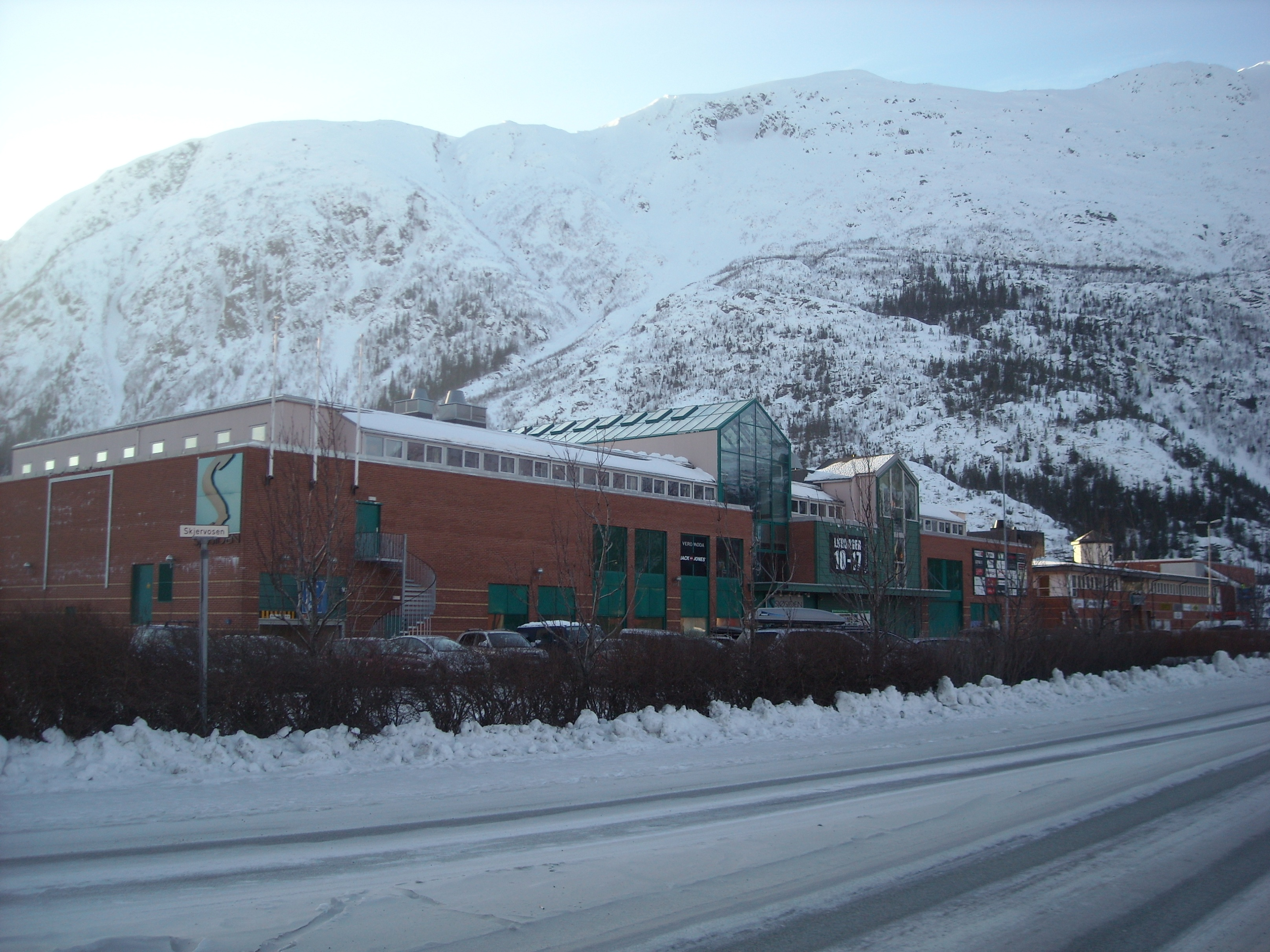 Sjøsiden Senter (lit. Seaside Centre), Mosjøen in Norway.